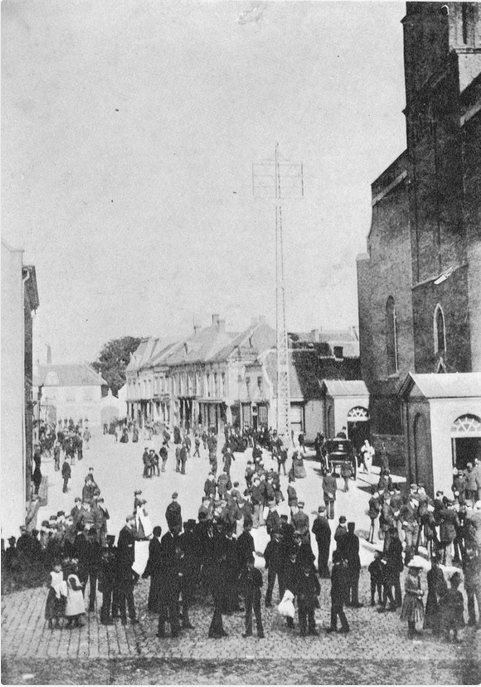 Oude Markt (Old Marketsquare) of Tilburg before 1895. On the right the façade of Heikese Kerk before its Gothic Revival additions